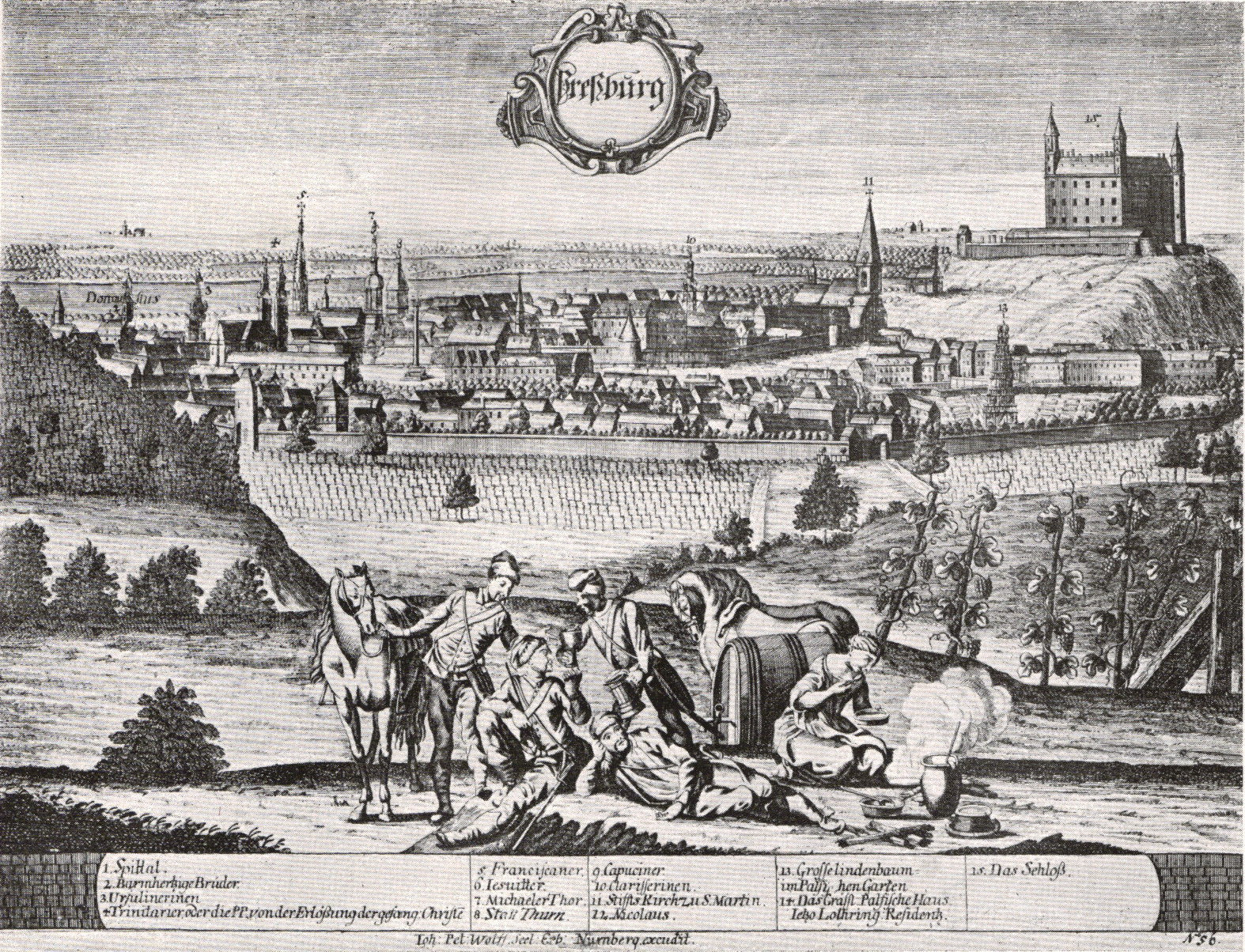 Baroque-era Bratislava (Pressburg), view from the North.